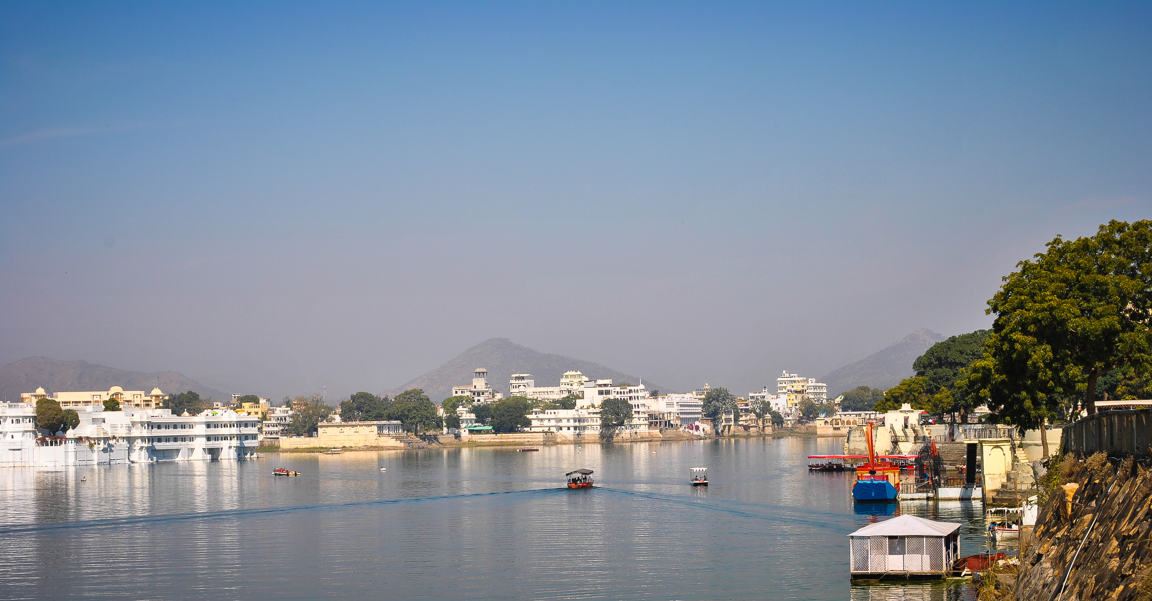 Lake Pichola in Udaipur, Rajasthan